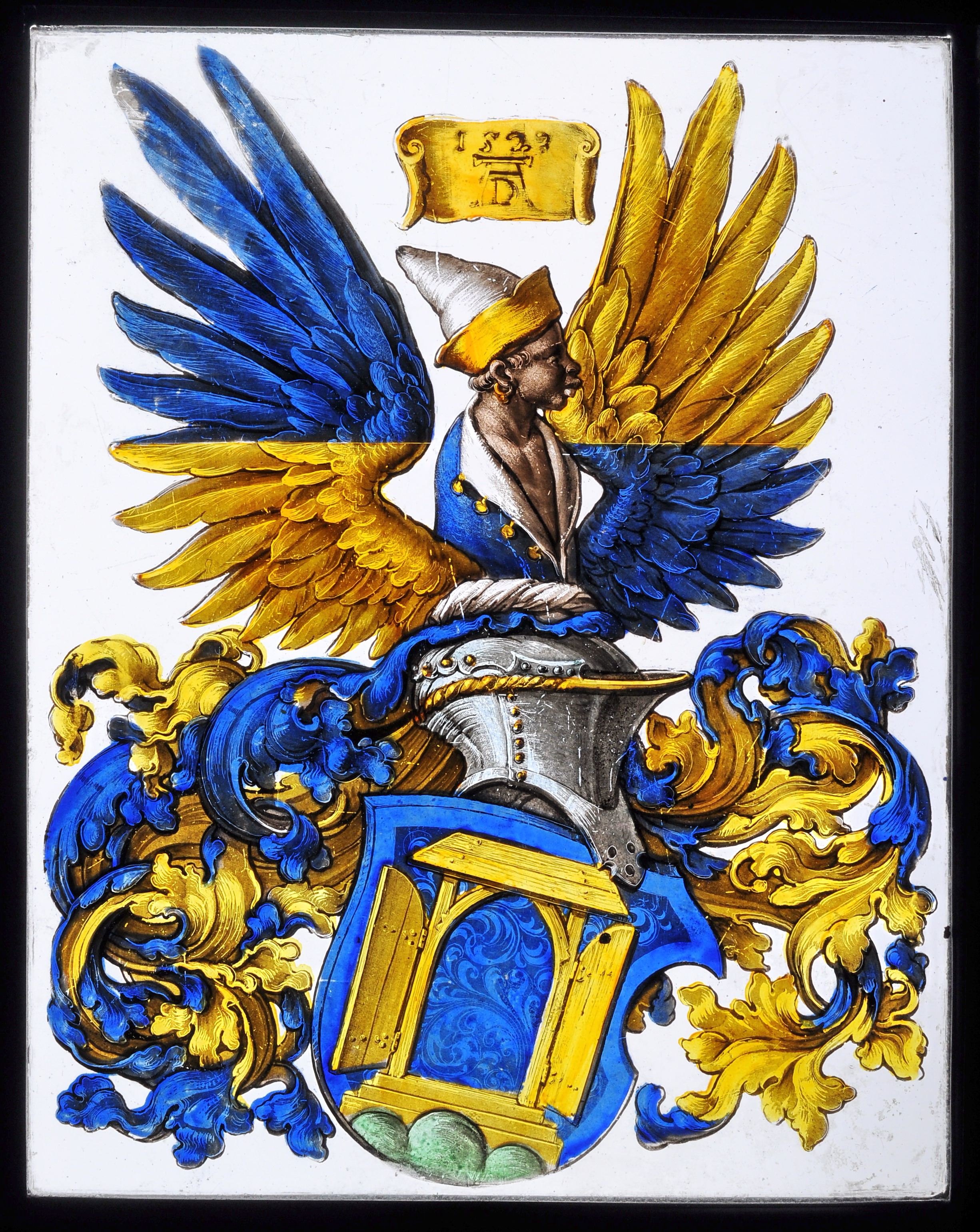 Coat of arms from Albrecht Duerer